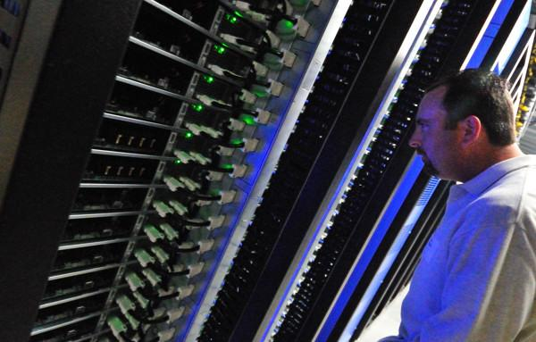 Intel's Ray Sardo worked closely with engineers at Facebook to help custom design the server boards and server racks that arrived in Prineville by the truckload every day as the data center was starting up. Intel Free Press story: A Peek Inside Facebook's Oregon Data Center. Tens of thousands of energy-efficient servers handle the deluge of data generated by more than 800 million users.